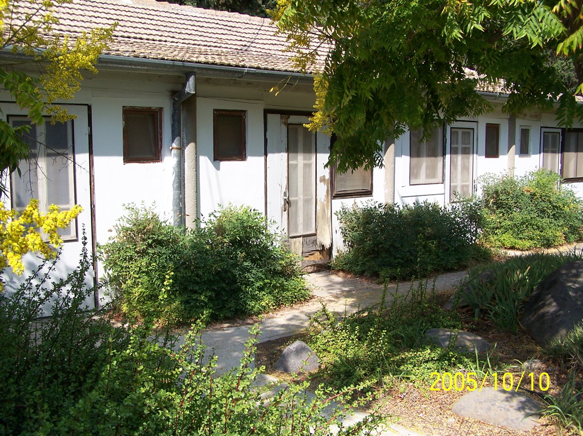 Ginegar apartments